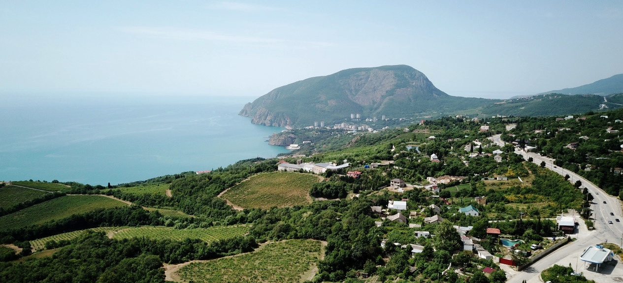 Kipar